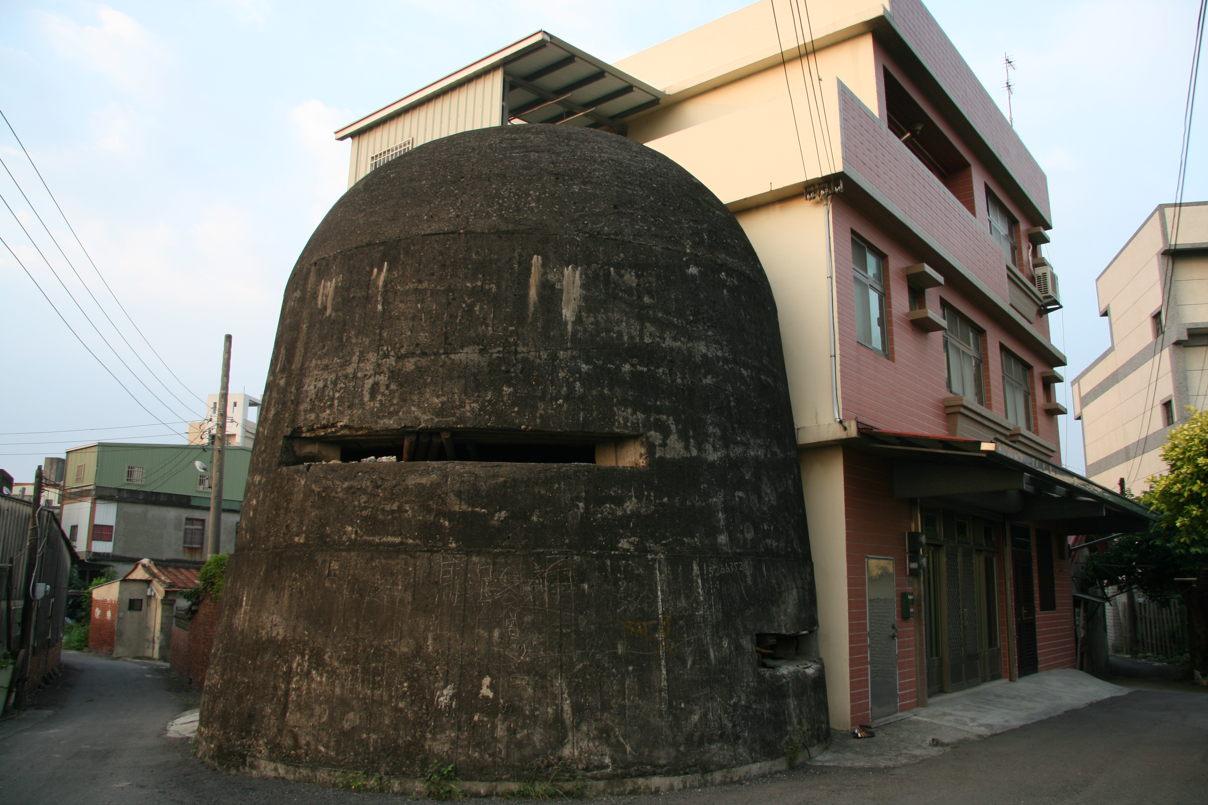 Kangle Section Pillbox